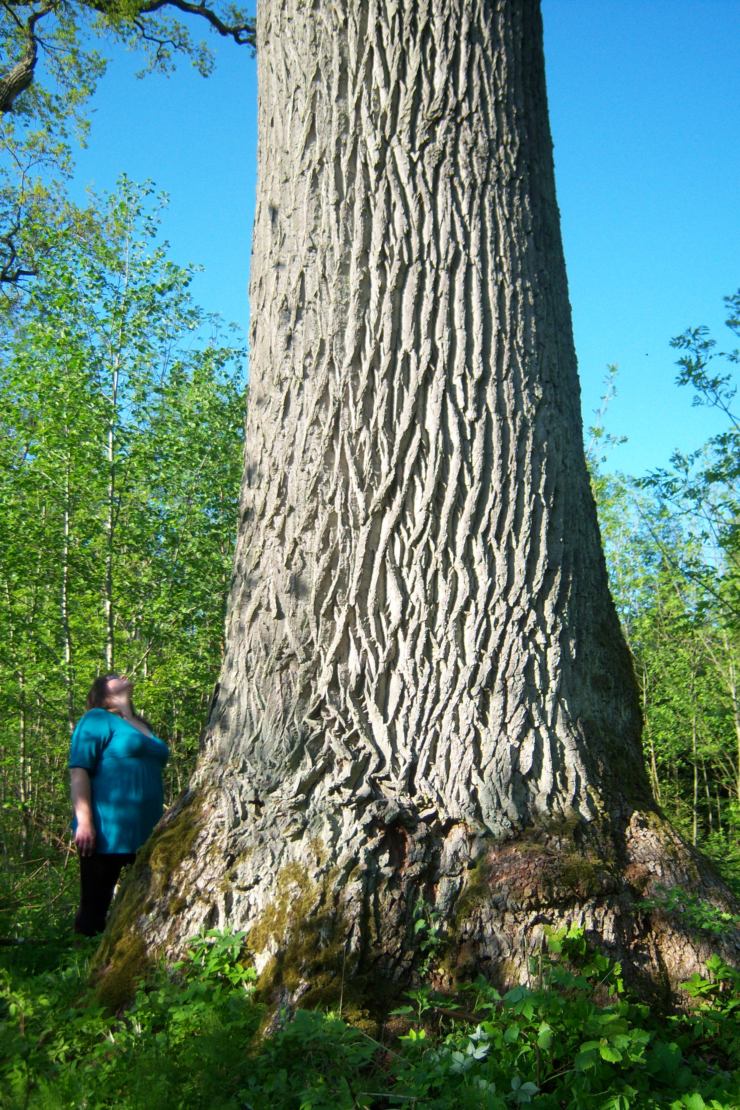 Oak trunk in Karčiupis forest, Lithuania